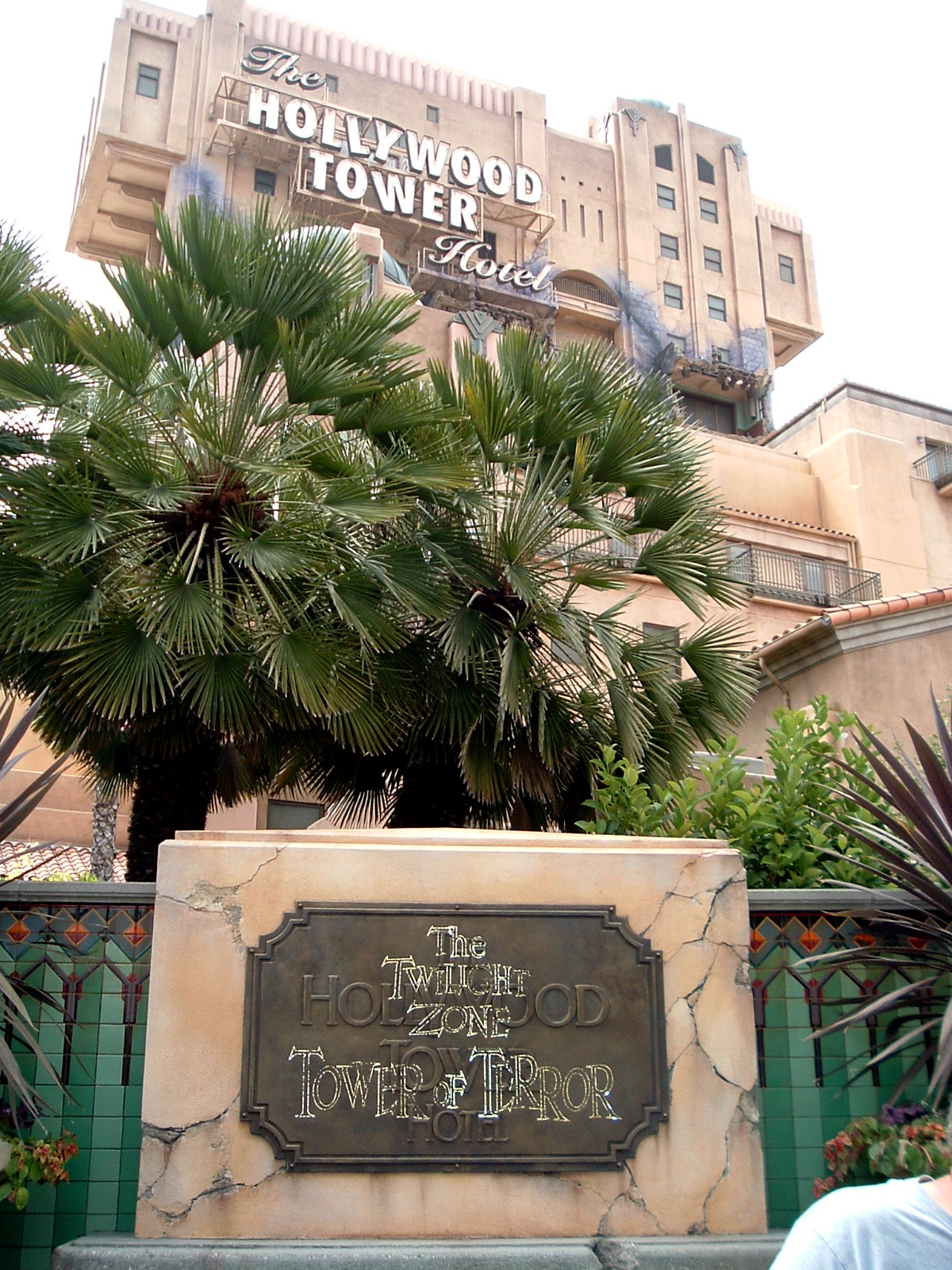 The Twilight Zone Tower of Terror at Disney's California Adventure